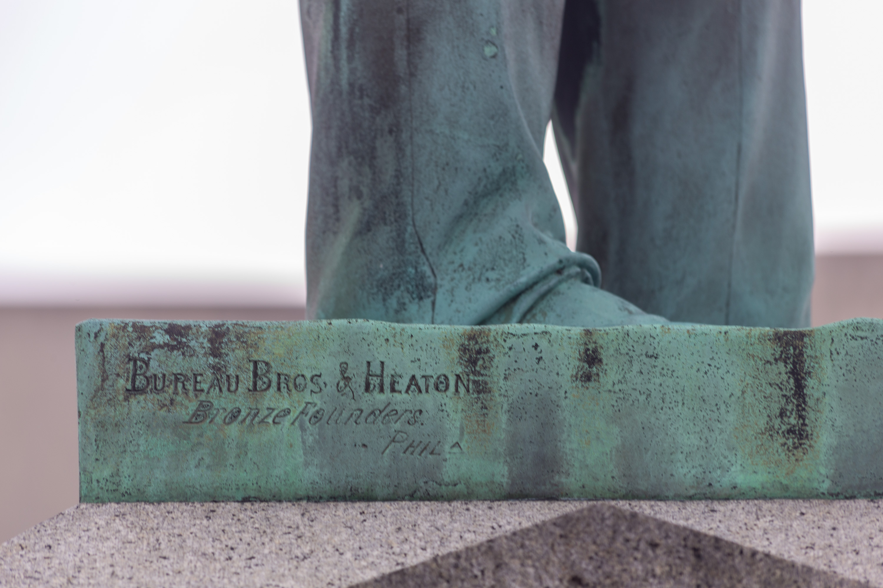 Civil War Monument foundry mark: Bureau Bros & Heaton